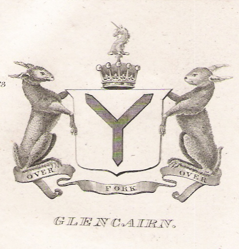 Coat of arms of the Earl of Glencairn. From an engraving in The Peerage of Scotland published by Peter Brown, Edinburgh, 1834. Out of copyright.